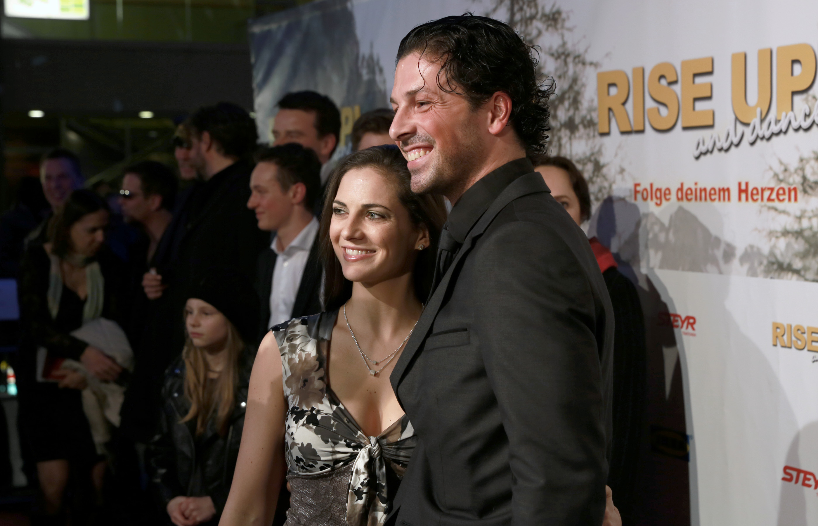 Bianca and Thomas Kraml at the premiere of Rise Up! And Dance at UCI Kinowelt Millennium City in Vienna.